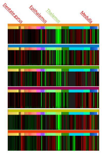 This is microarray expression data for the gene C8orf34 processed and compiled into a viewable format.